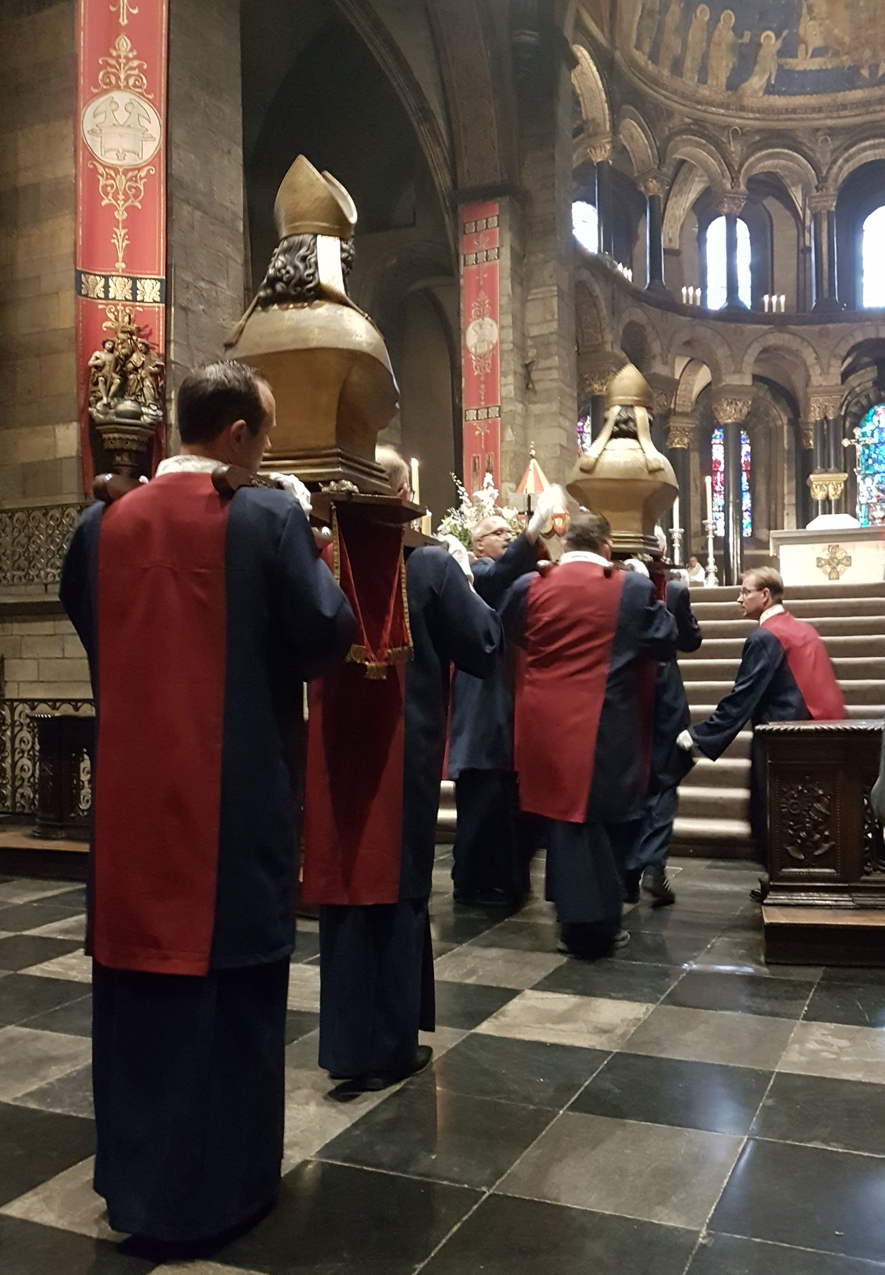 The reliquary busts of Saint Monulph and Saint Gondulph being carried up the choir stairs of the Basilica of Our Lady in Maastricht, Netherlands. This is part of a church service in which the main relics of the church are venerated. It is one of the highlights of the 2018 Heiligdomsvaart ("relics pilgrimage"), a religious and historic event that takes place once in seven years and dates back to the Middle Ages.